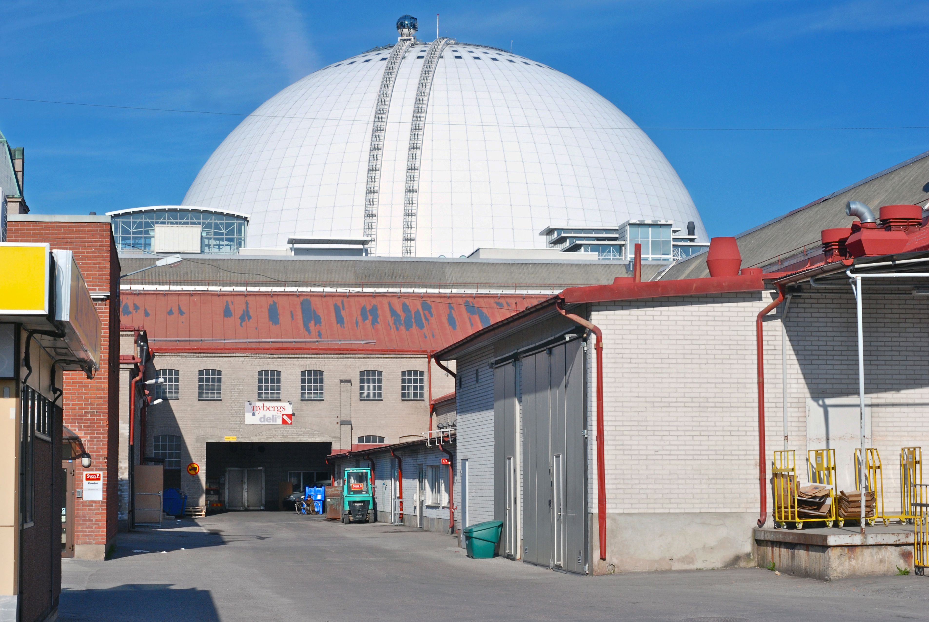 Stockholm Globe Arena seen from Slakthusområdet (The slaughterhouse area).